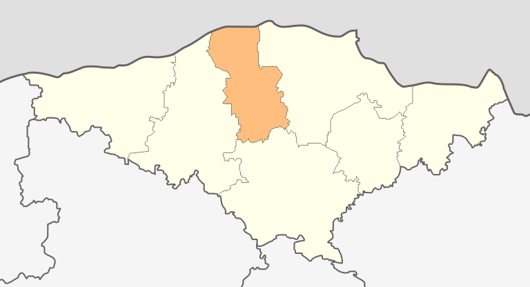 Map of Sitovo municipality, Silistra Province